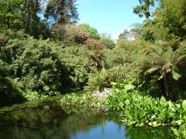 The Lost Gardens of Heligan.